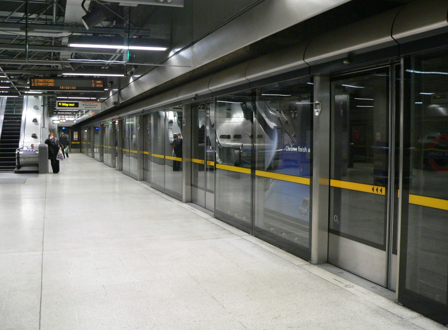 Thee eastbound Jubilee Line platform at Canada Water tube station. The glass wall to the right contains the platform screen doors that protect the eastbound tracks.